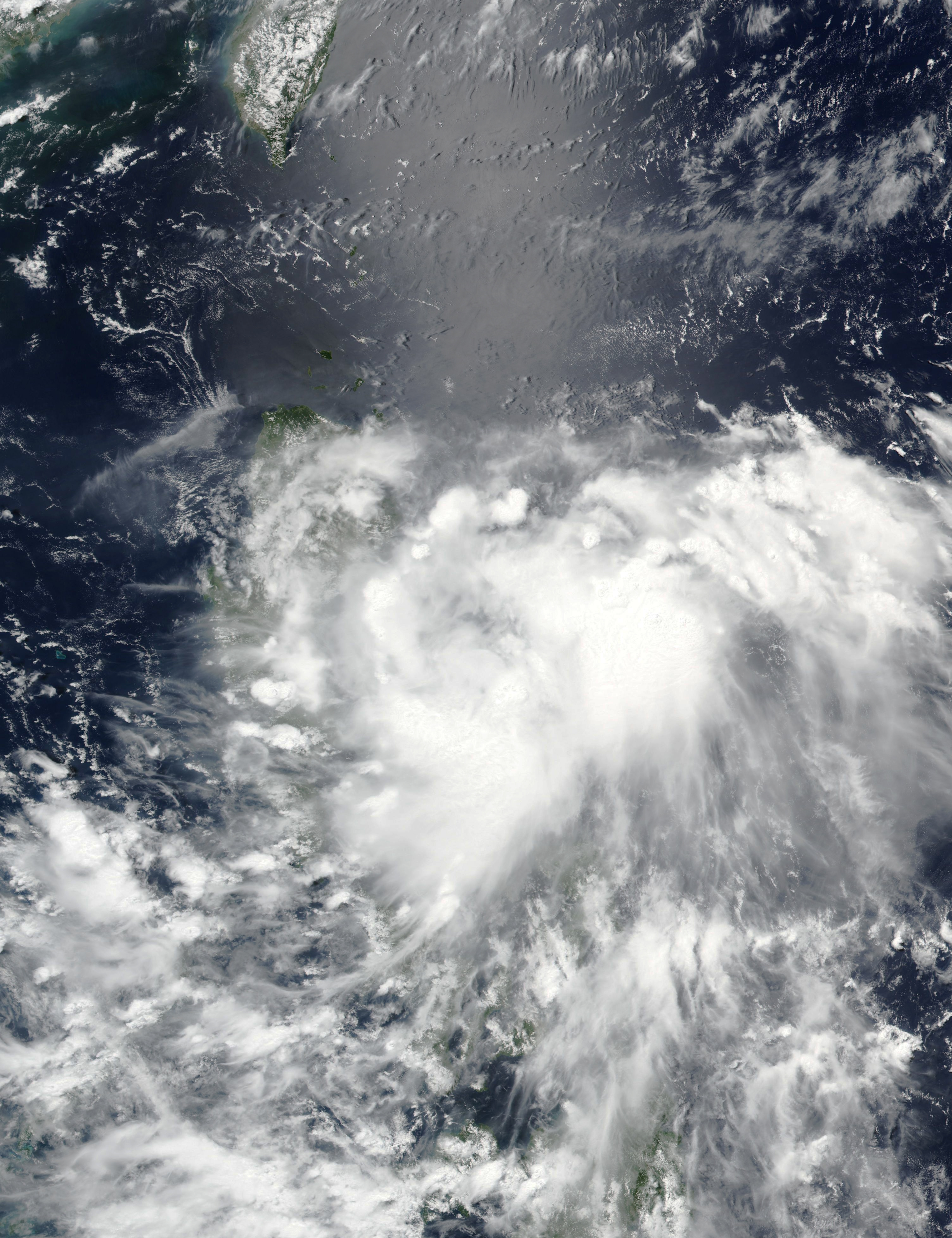 Tropical Depression Ambo affecting Luzon on June 26, 2016